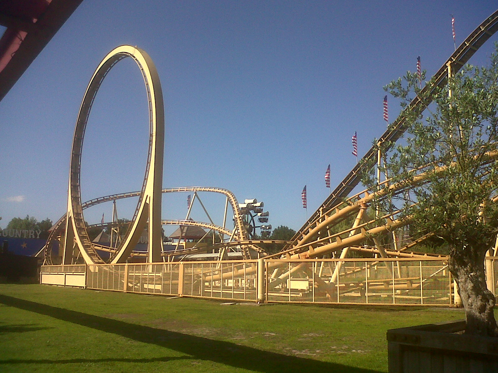 Rollercoaster Thunder Loop (Looping Star) in Themepark & Resort Slagharen